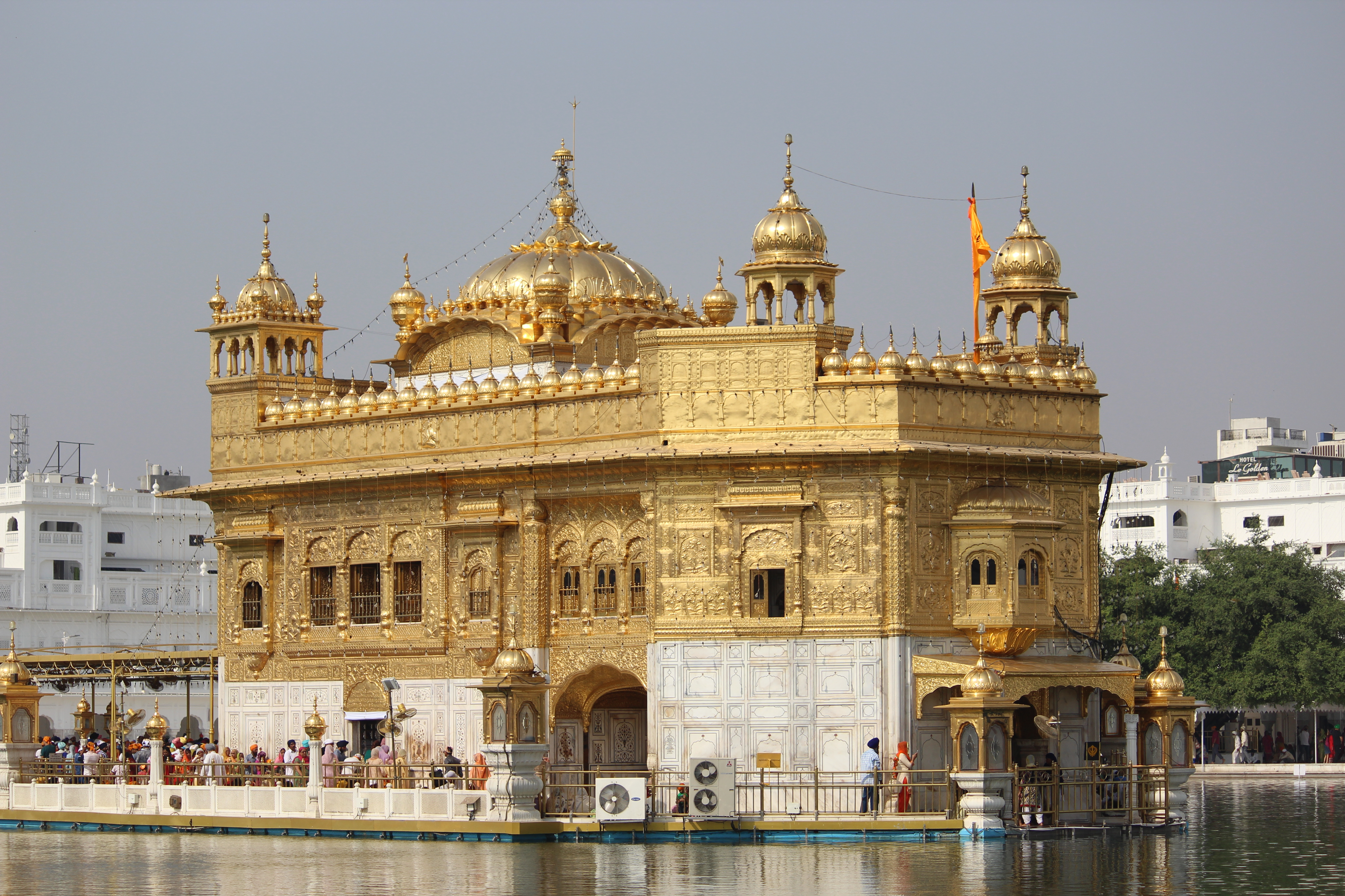 Harimandir sahib as a Golden temple in Amritsar